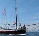 Croatian two-masted bracera "Roditelj" anchored